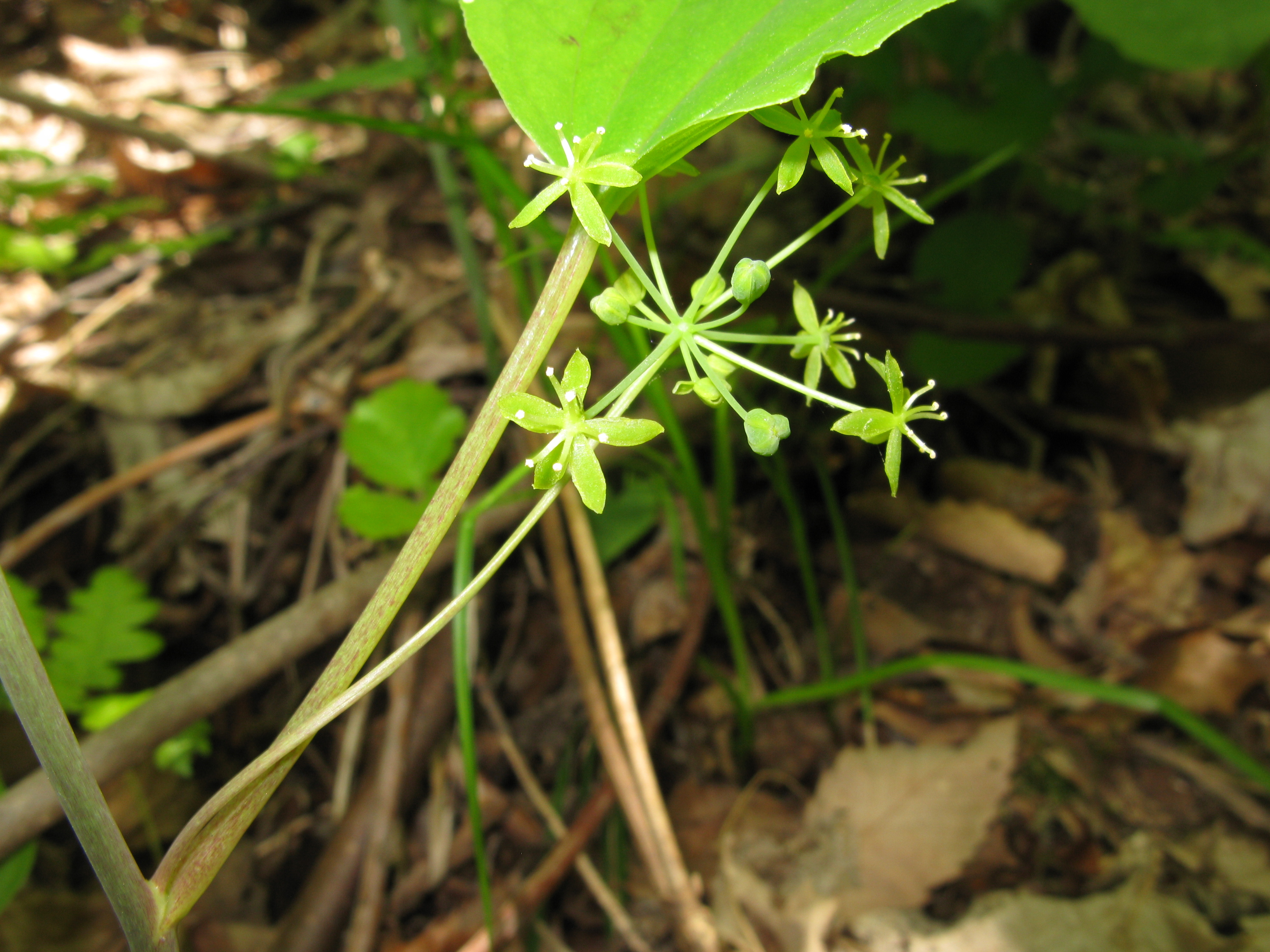 Smilax nipponica, Fukushima city, Fukushima pref., Japan